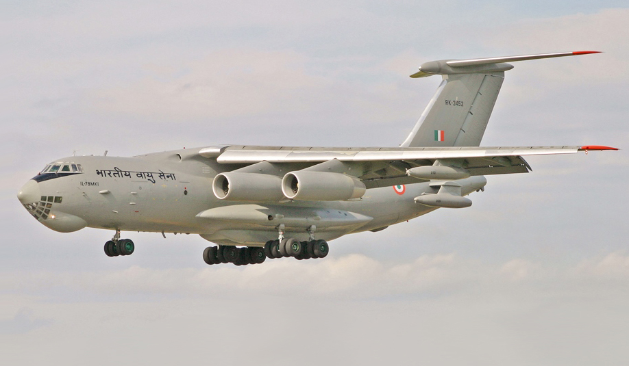 A Indian Air Force Ilyushin Il-78MKI at RAIT 2007